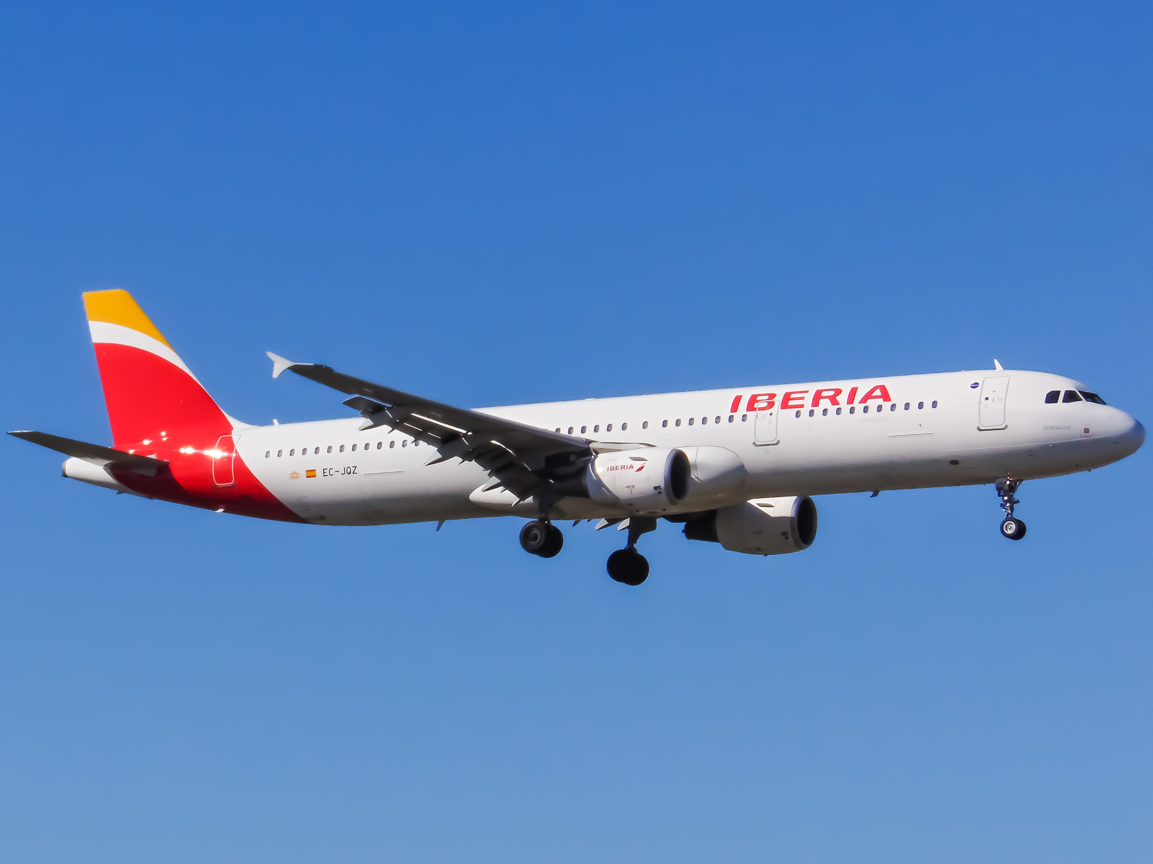 An Iberia A321 landing at Lisbon Airport, LIS/LPPT.